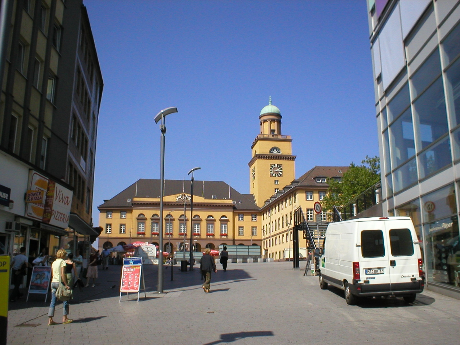 town hall of Witten